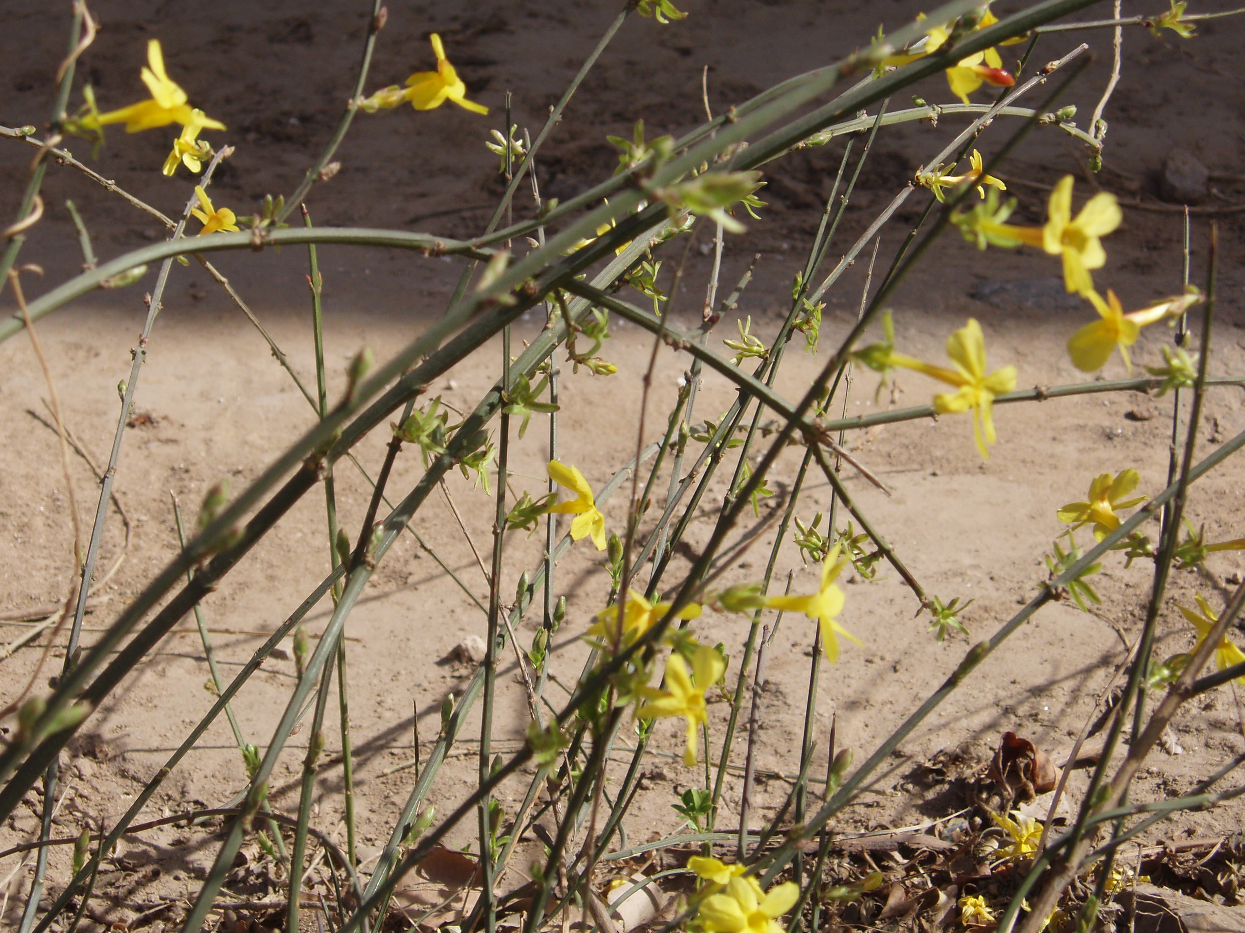 Winter Jasmine flowers